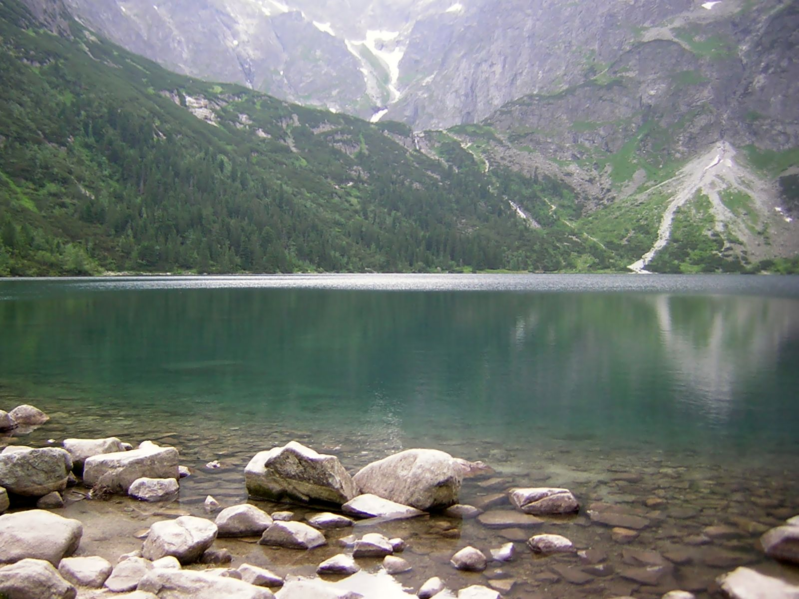 Morskie Oko in Tatra Mountains